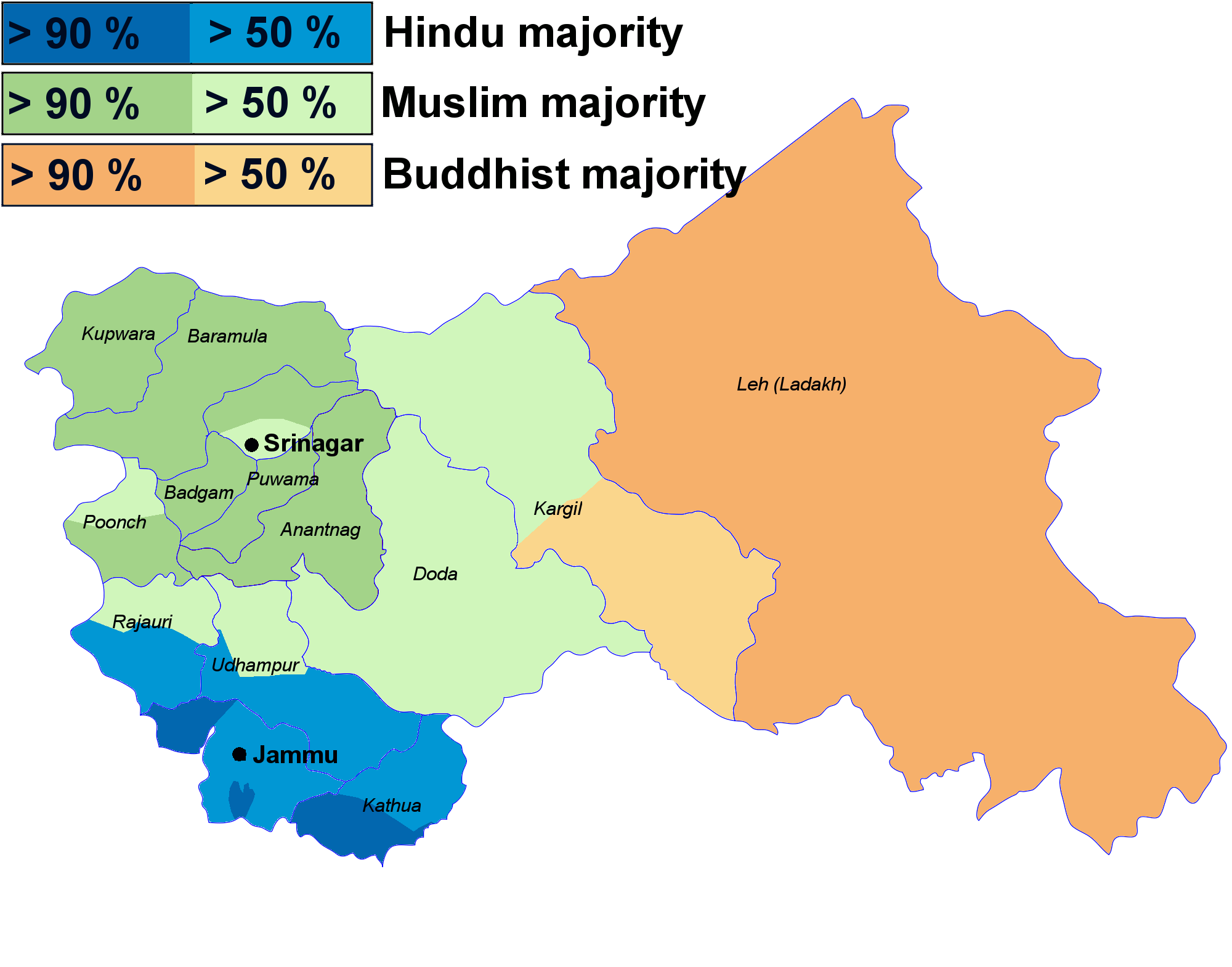 Religions in Jammu and Kashmir, India